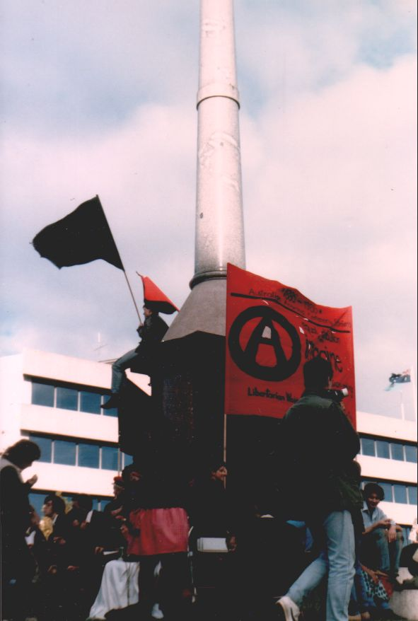 Australian Anarchist Centenary Celebrations on May 1,1986 at the Melbourne Eight Hour Day monument, after a march up Swanston Street from the Yarra Bank.